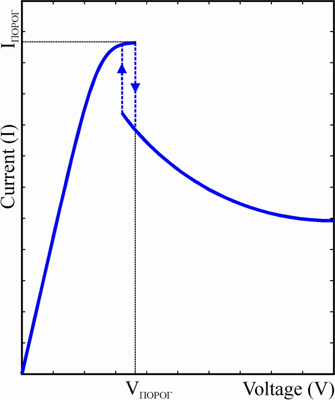 Current-voltage characteristic of a Gunn diode, a type of high frequency diode used in microwave oscillators. The diode shows voltage controlled negative resistance above the threshhold (пороГ) voltage.